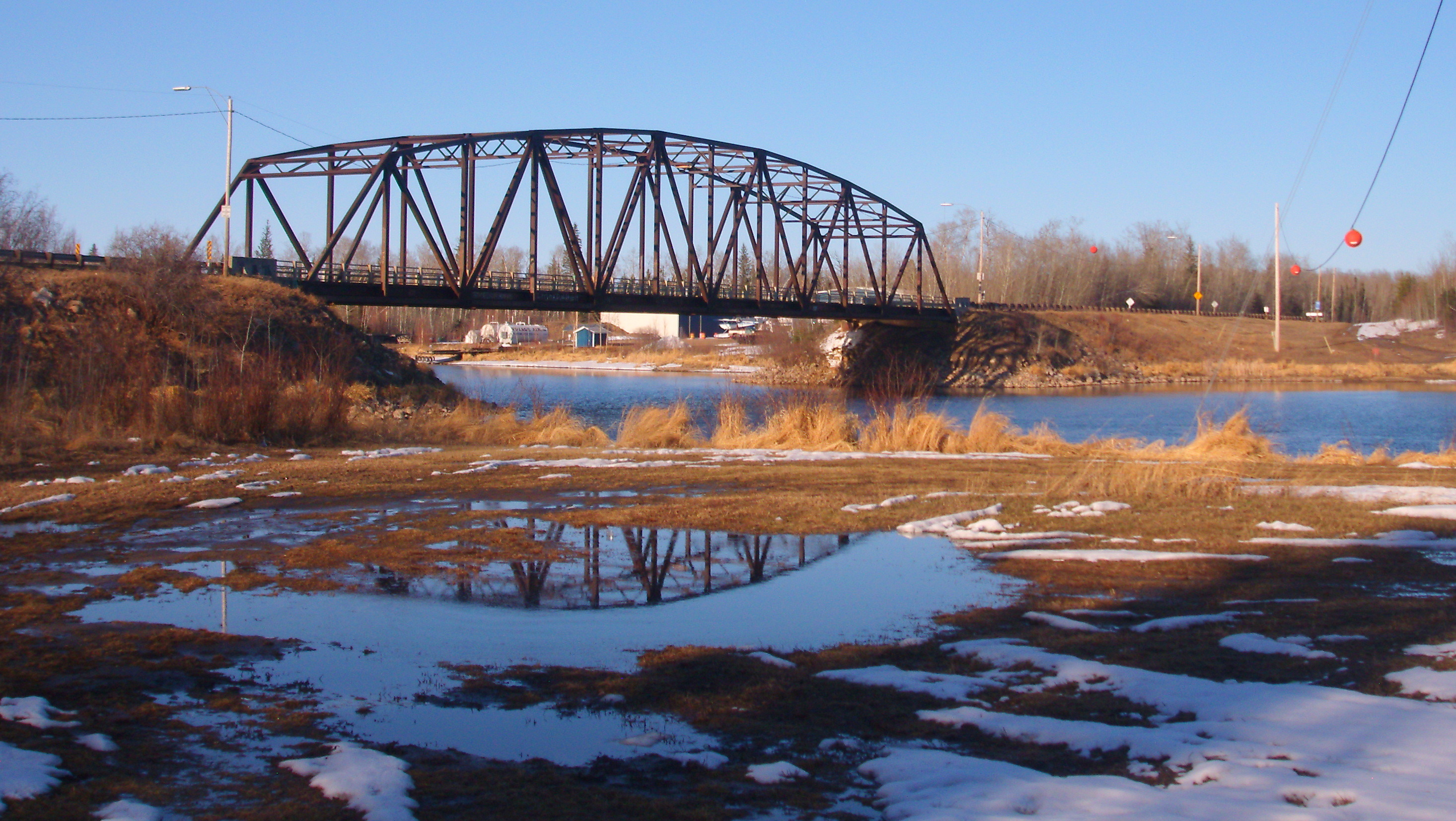 Saskatchewan Highway 155 bridge over the Kisis Channel at Buffalo Narrows, Saskatchewan. Taken from the north end.